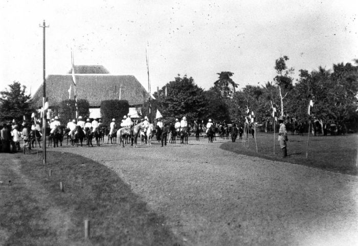 Foto's van de feesten in het Gewest Pekalongan ter herdenking van het zilveren Regeeringsjubileum van Hare Majesteit Wilhelmina, Koningin der Nederlanden